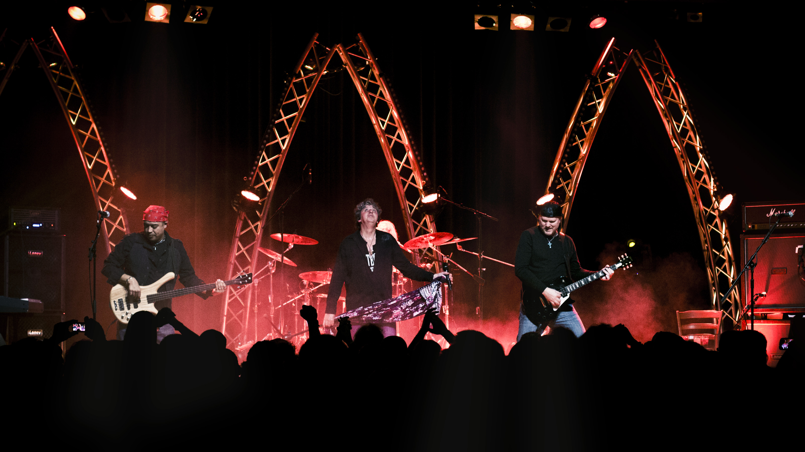 Whitecross at Elements of Rock 2013